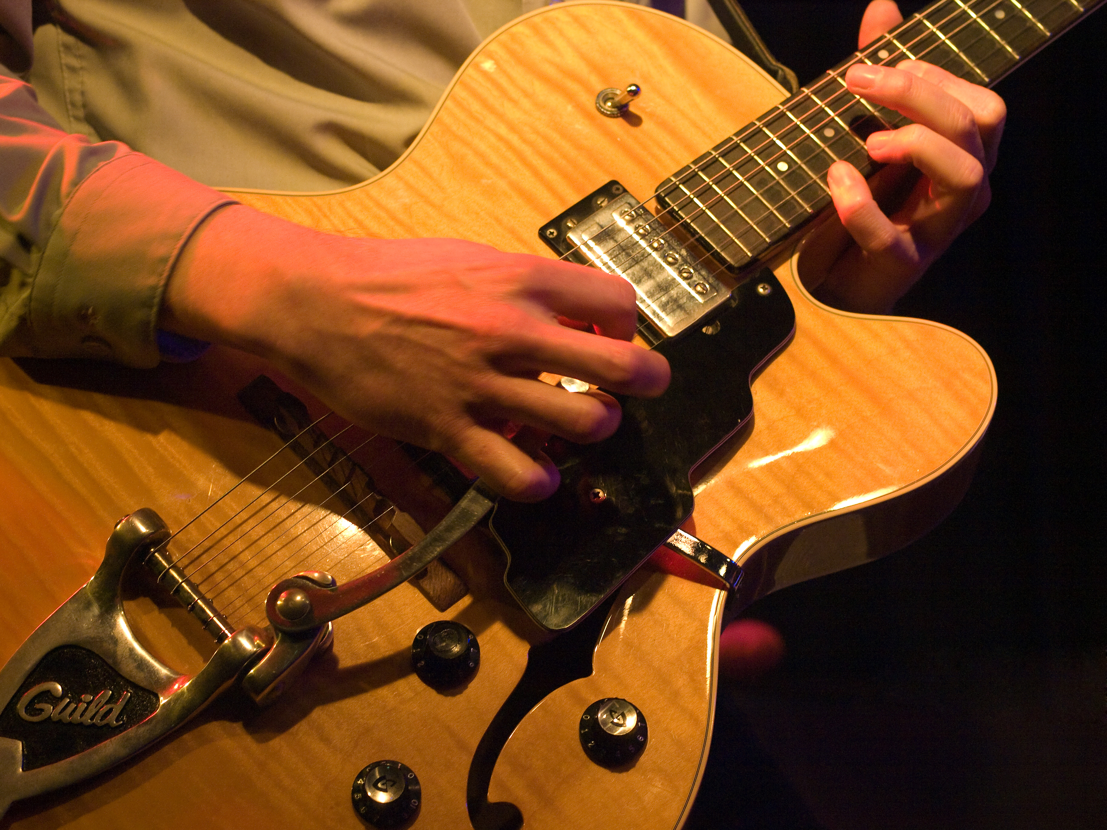 Guild guitar played by Samuel Halscheidt; Picture taken in Jazz Club Unterfahrt, Munich/Bavaria